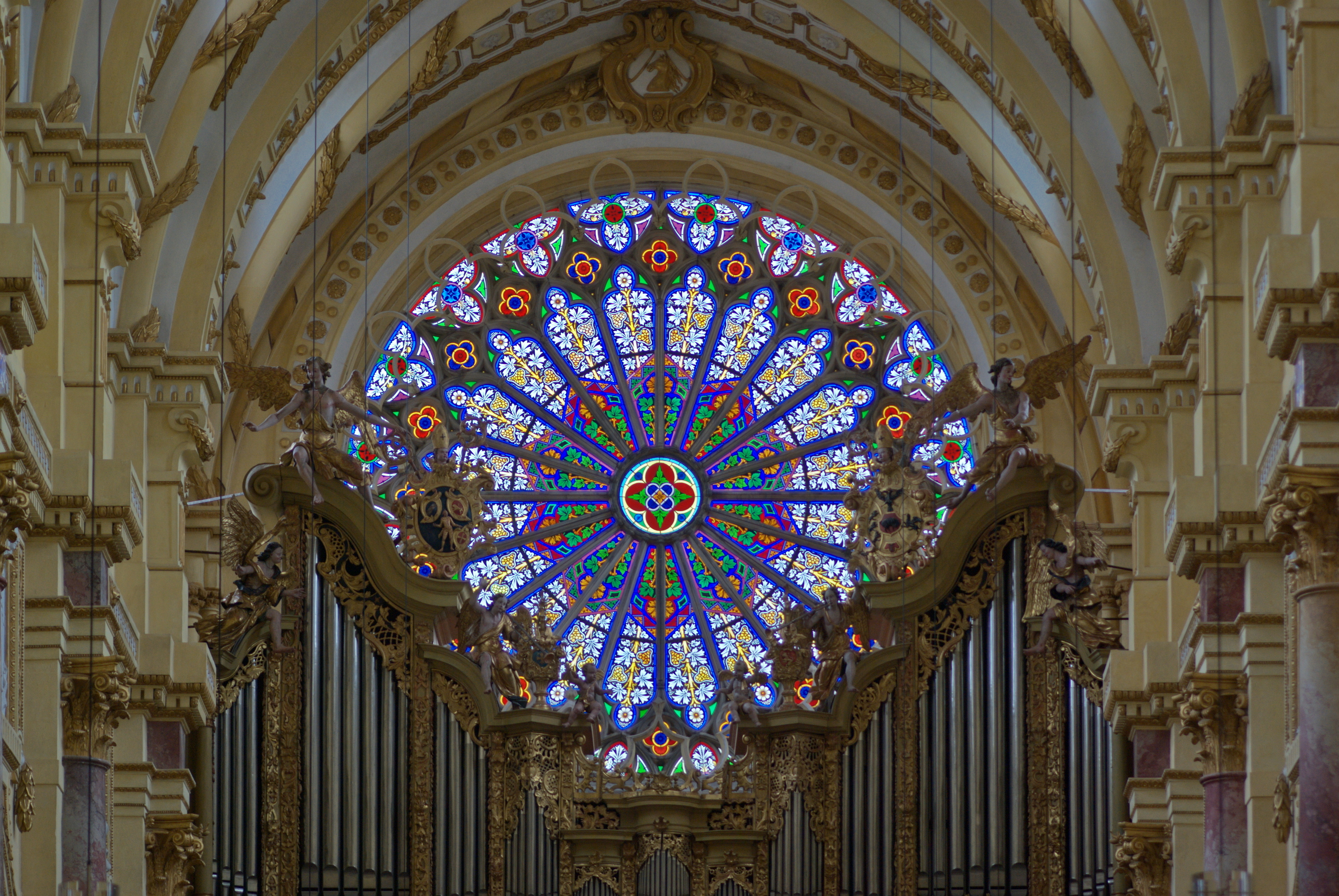 Church of Ebrach Abbey: inside view of the Rose window.